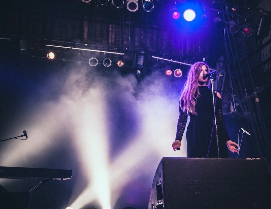 Melissa VanFleet performing at the Trocadero Theatre in September 2014